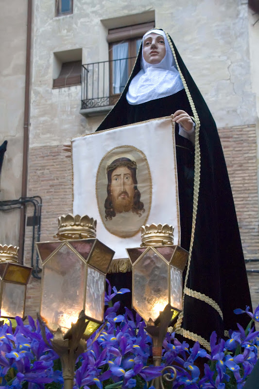 Veronica Virgin Borja (Zaragoza, Spain)